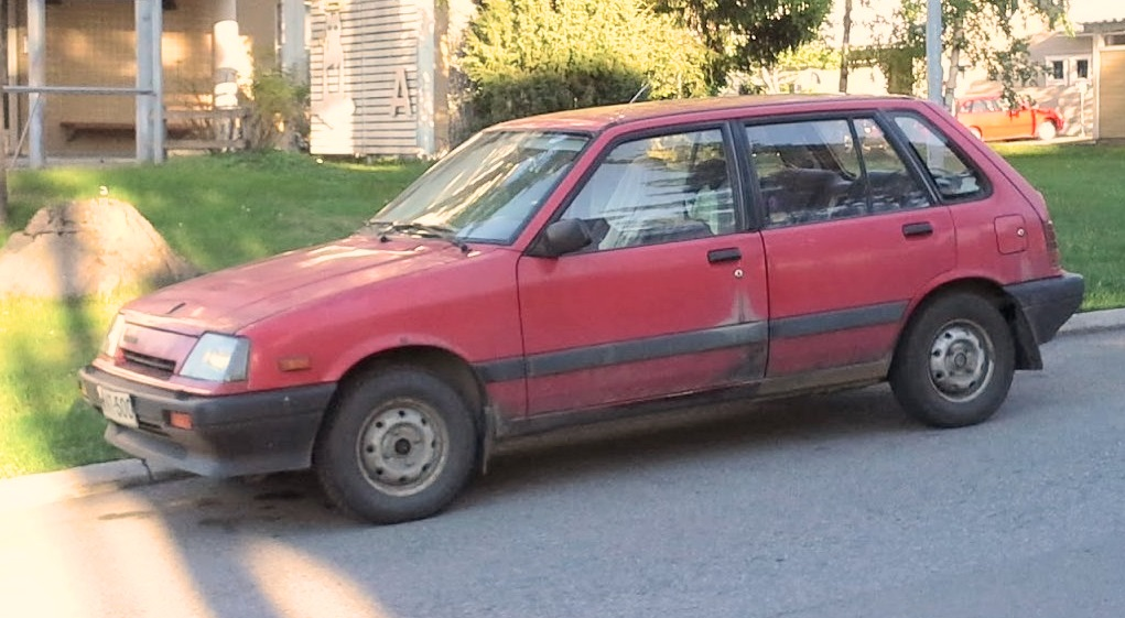 This is the first generation version of the Suzuki Swift, also called the SA-413. It was sold under several different names.